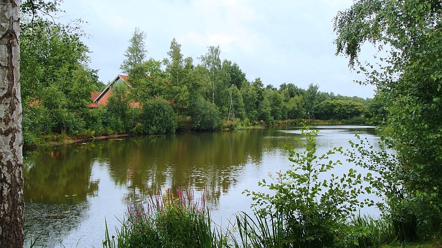 Lake next to Moordeich Cemetery in Stuhr near Bremen (Lower Saxony), Germany